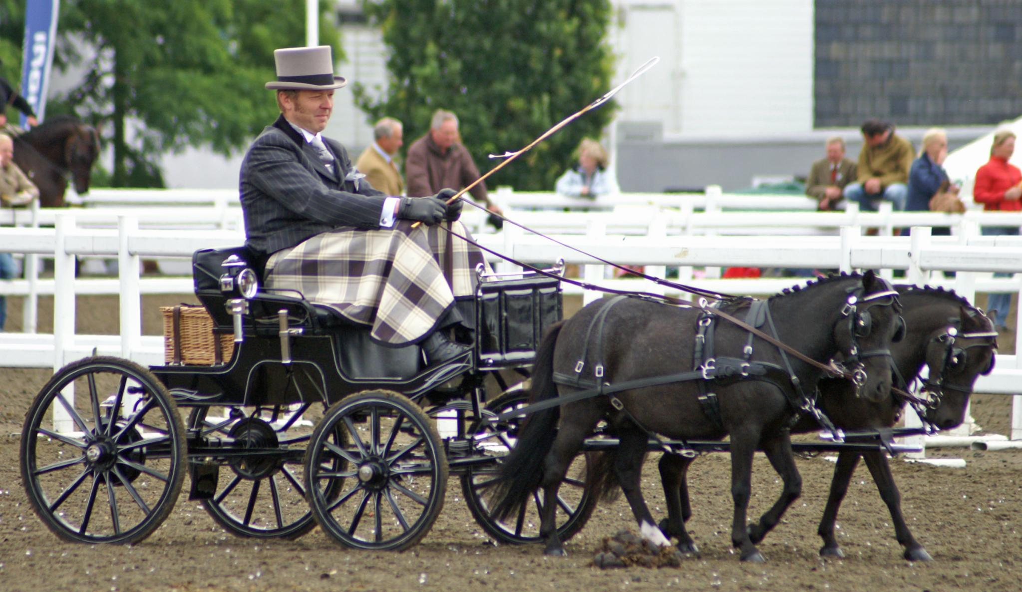 Driving Competion